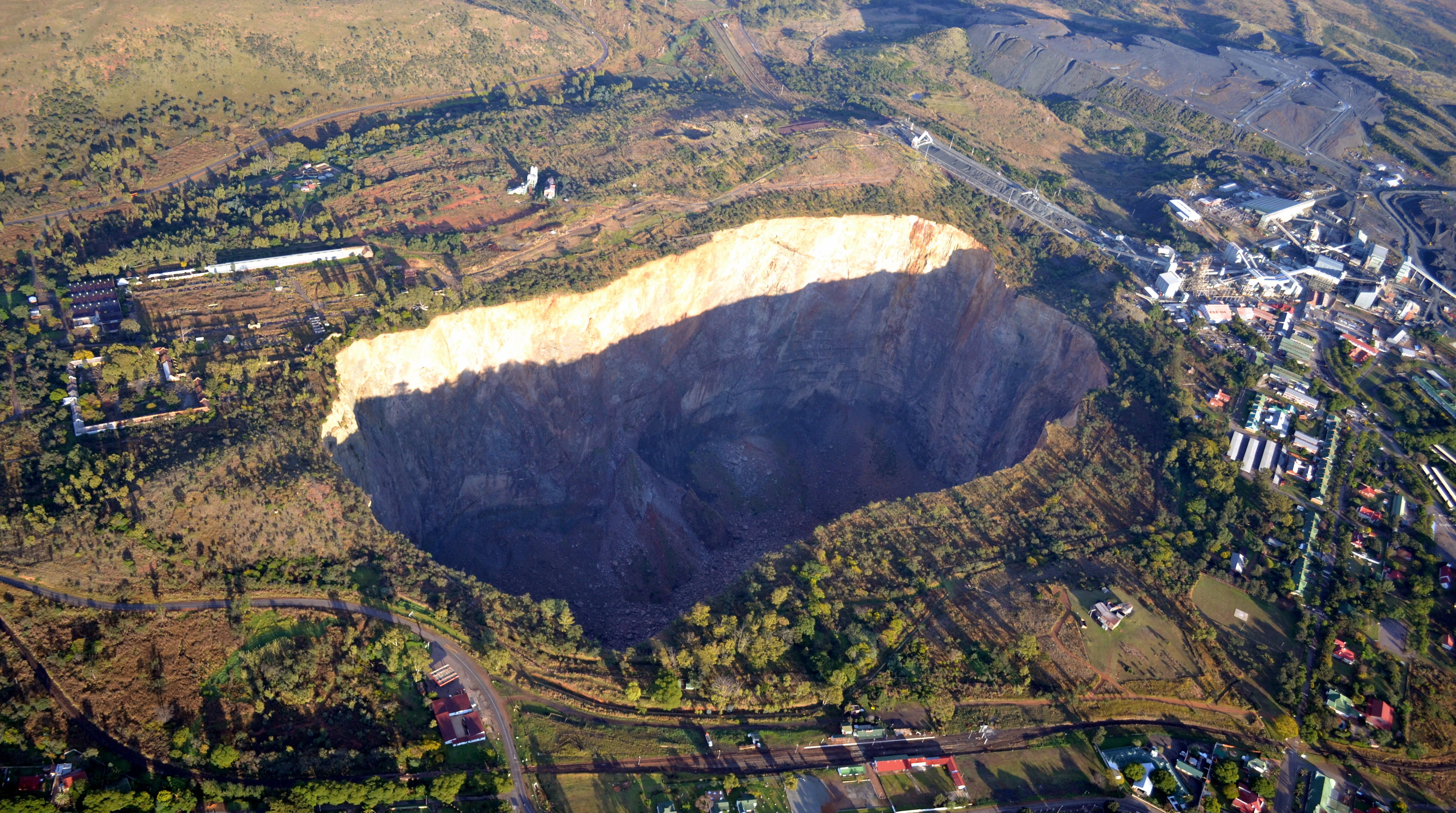 The pit at the Premier Mine, Cullinan, Gauteng, South Africa. The cross-sectional area of the 190 metre deep pit at its surface is about 32 hectares.[1] The mine was the source of the 3106 carat Cullinan Diamond, the largest diamond ever found. ↑ Cullinan Diamond Mine, Gauteng, South Africa